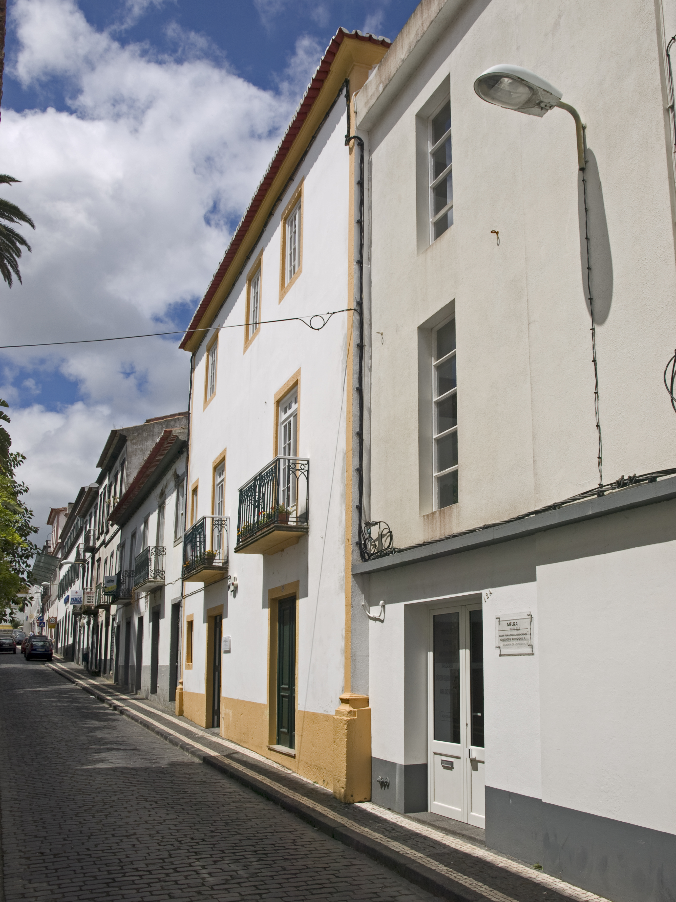 Sahar Hassamain Synagogue (white-yellow), Ponta Delgada